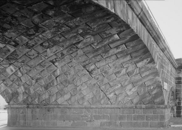 Skew Bridge or Askew Bridge on the NRHP since March 1, 1973. At North 6th Street near Woodward Street, Reading, Berks County, Pennsylvania. HABS photos taken in August 1958, but the LOC site has them listed as "Not Digitized" This picture taken from (Historical website published in conjunction with the Commonwealth of Pennsylvania), which credits HABS